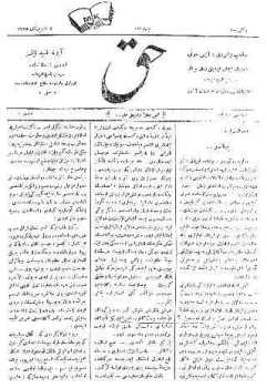 Hak Ottoman Newspaper